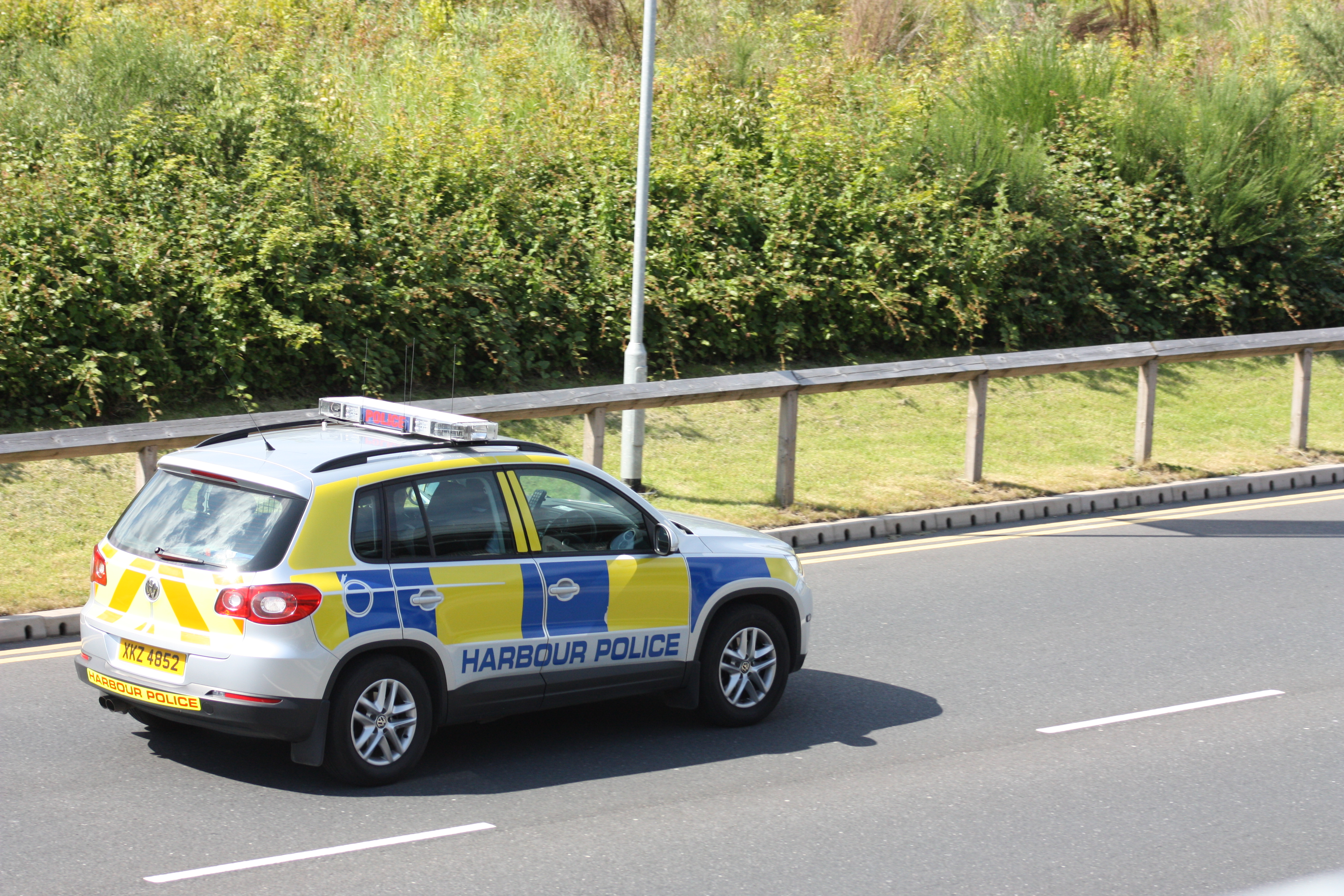 Belfast Harbour Police car, Airport Road West, Belfast, Northern Ireland, June 2010